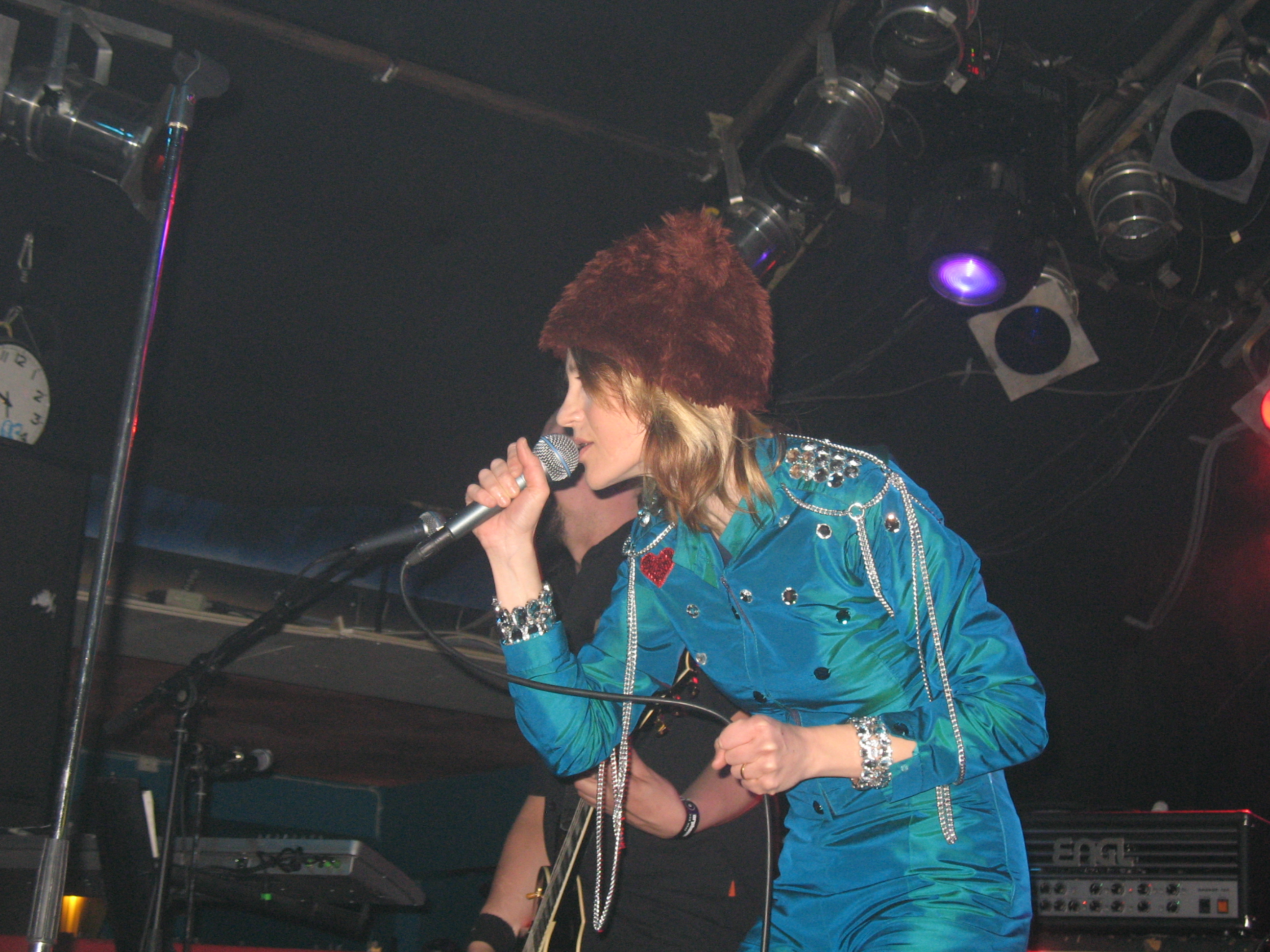 Harry, the singer of Finnish rock band Passionworks on stage at Rohstofflager in Zurich, Switzerland in May, 2008